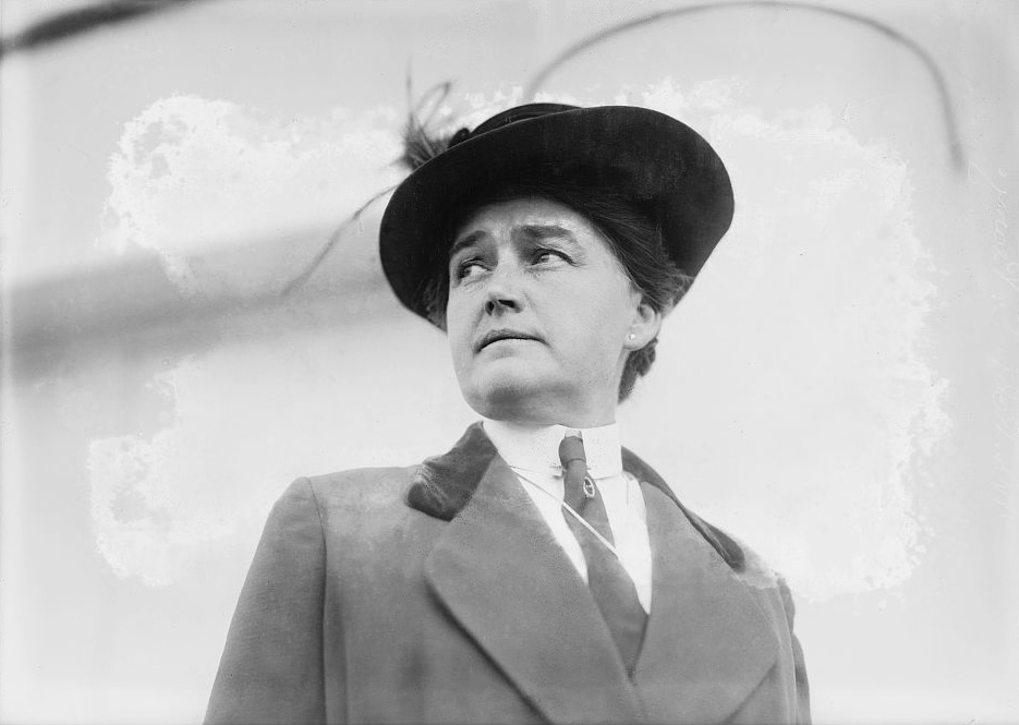 Bain News Service,, publisher. Mrs. Robert E. Peary, Josephine Diebitsch Peary circa 1913 [between ca. 1910 and ca. 1915] 1 negative : glass ; 5 x 7 in. or smaller. Notes: Title from data provided by the Bain News Service on the negative. Photo shows Josephine Diebitsch Peary (1863-1955), the wife of arctic explorer Admiral Robert E. Peary. (Source: Flickr Commons project, 2010) Forms part of: George Grantham Bain Collection (Library of Congress). Format: Glass negatives. Repository: Library of Congress, Prints and Photographs Division, Washington, D.C. 20540 USA, General information about the Bain Collection is available at Persistent URL: Call Number: LC-B2- 2837-14